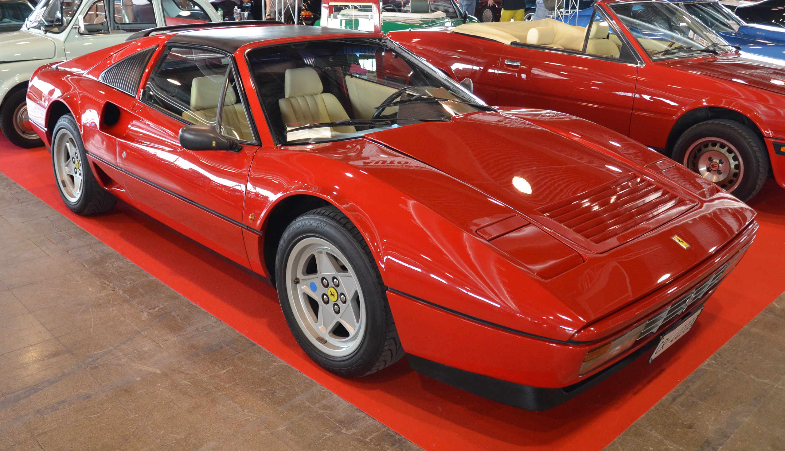 1987 Ferrari GTS Turbo, photographed at Verona Legend Cars 2015.